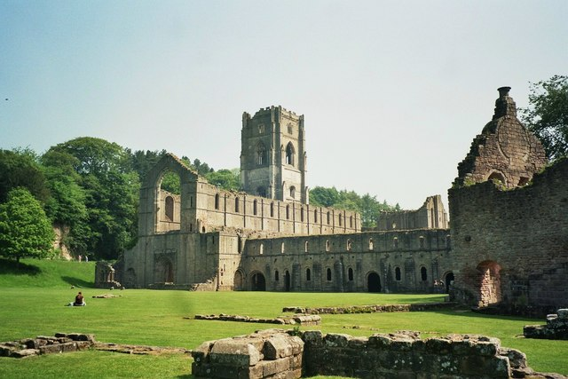 Fountains Abbey Standing near the ruins of the infirmary this is the view to the Abbey church ruin.